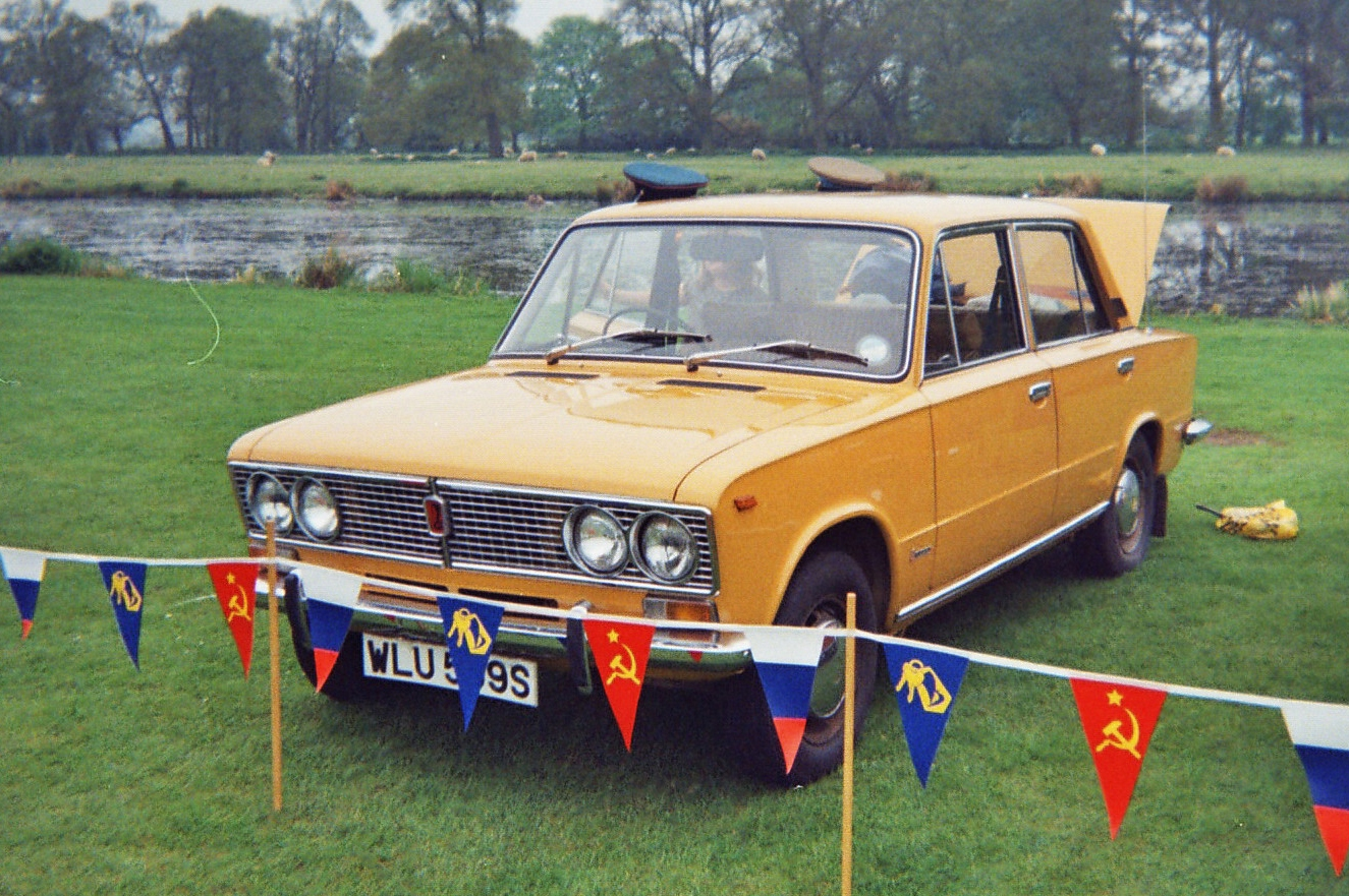 Right-hand drive Lada 1500 (VAZ-21032) 4-door sedan at the “Wartburg Trabant IFA Club UK” rally 2006 in Stanford Hall, Leicestershire.